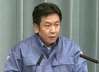 Yukio Edano, Chief Cabinet Secretary, attended the press conference at the Prime Minister's Official Residence in Chiyoda Ward, Tōkyō Metropolis on March 14, 2011.